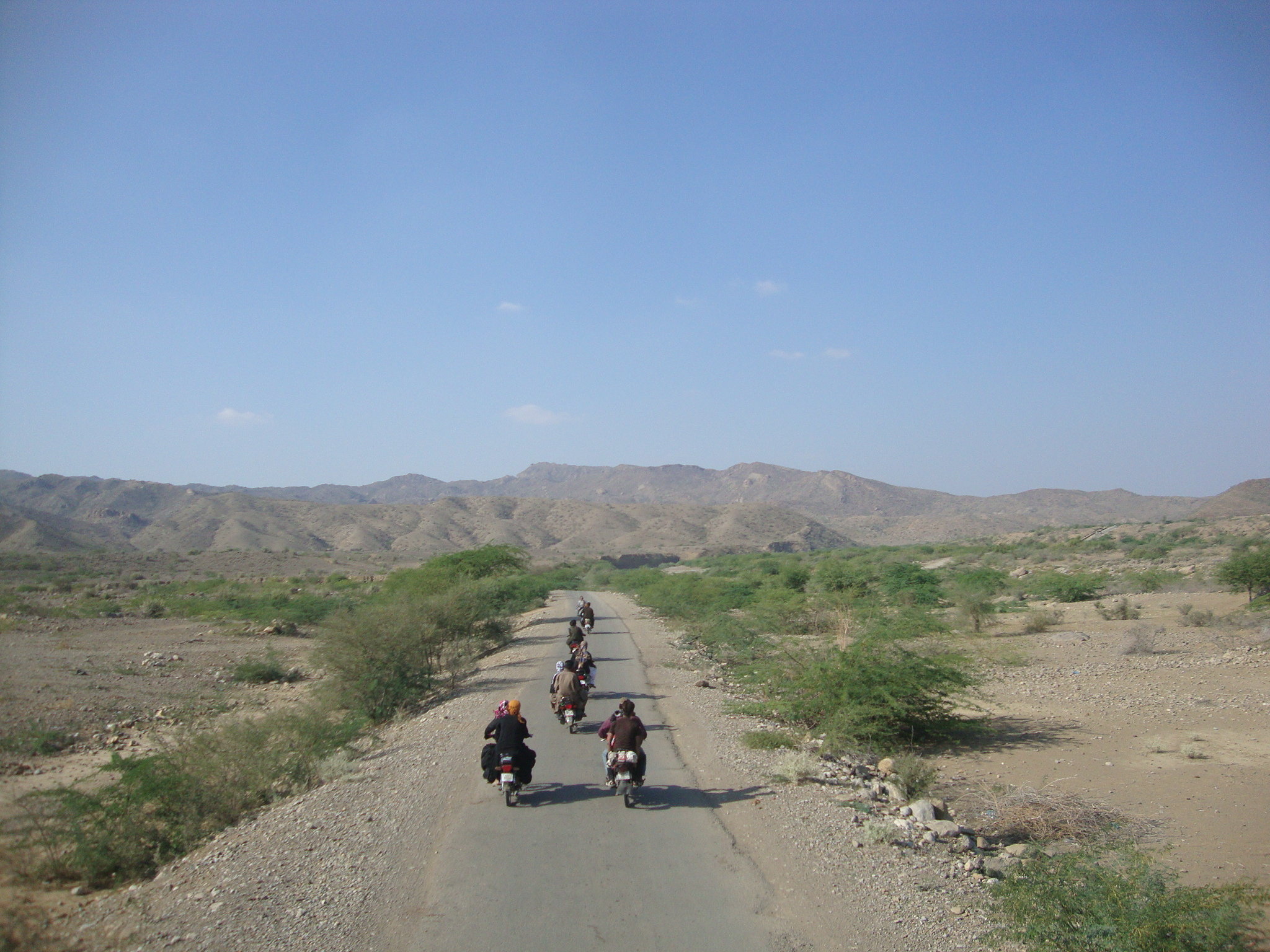 Go to Shah Norani By Motorcycle